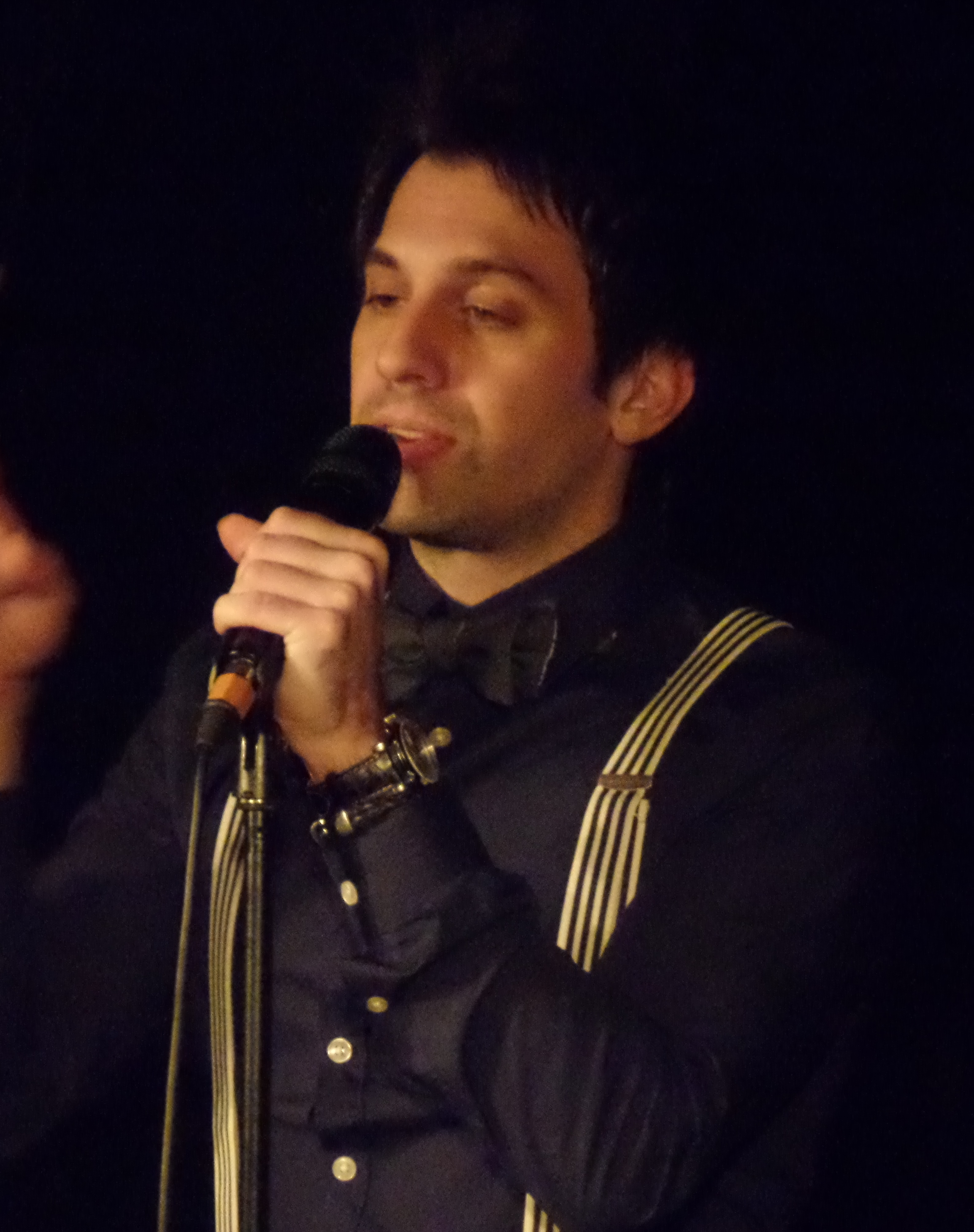 Postmodern Jukebox, March 13th 2015, Cologne .pmjtour Scott Bradlee